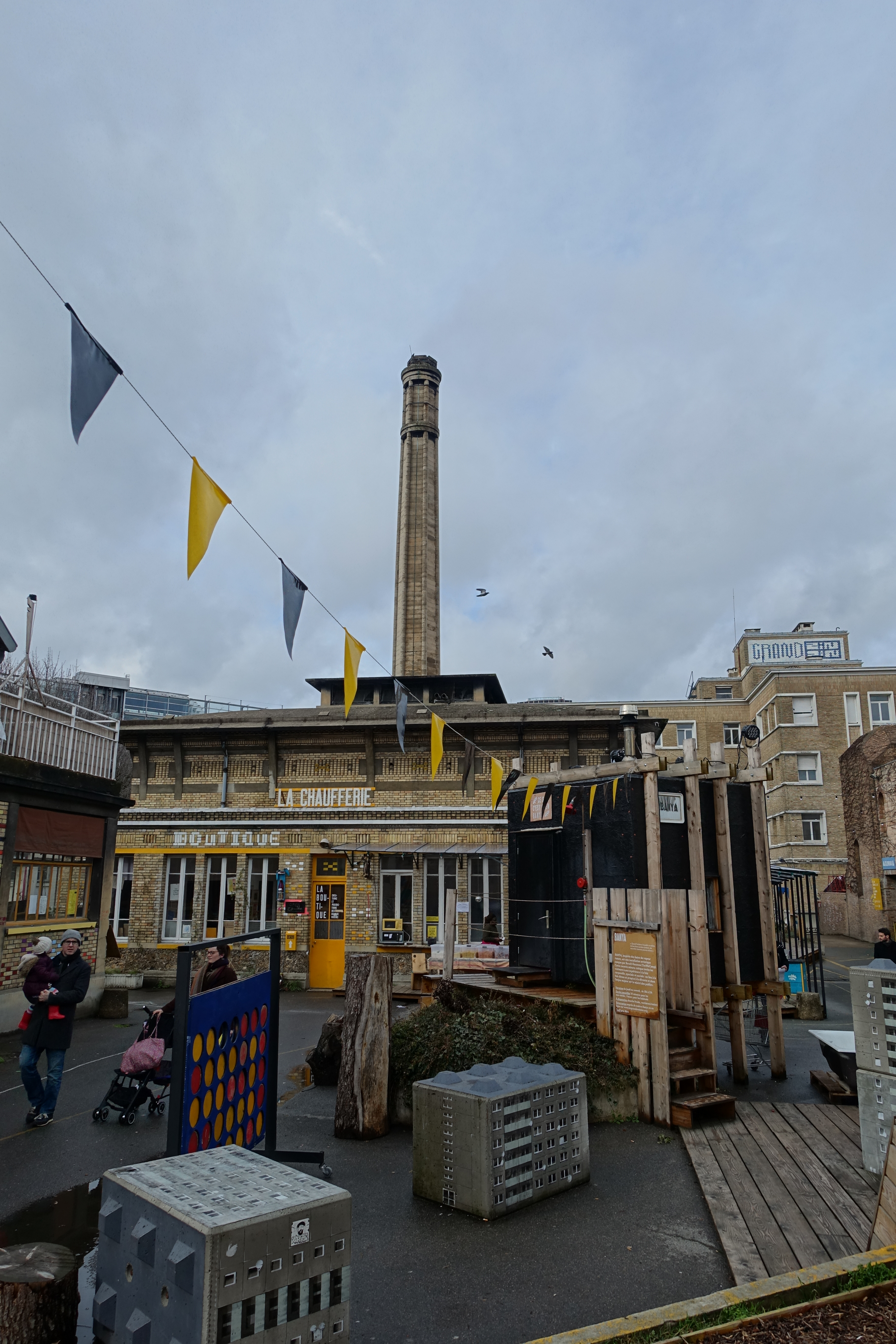 Les Grands Voisins, cultural center, 82 avenue Denfert-Rochereau, 75014 Paris, France.